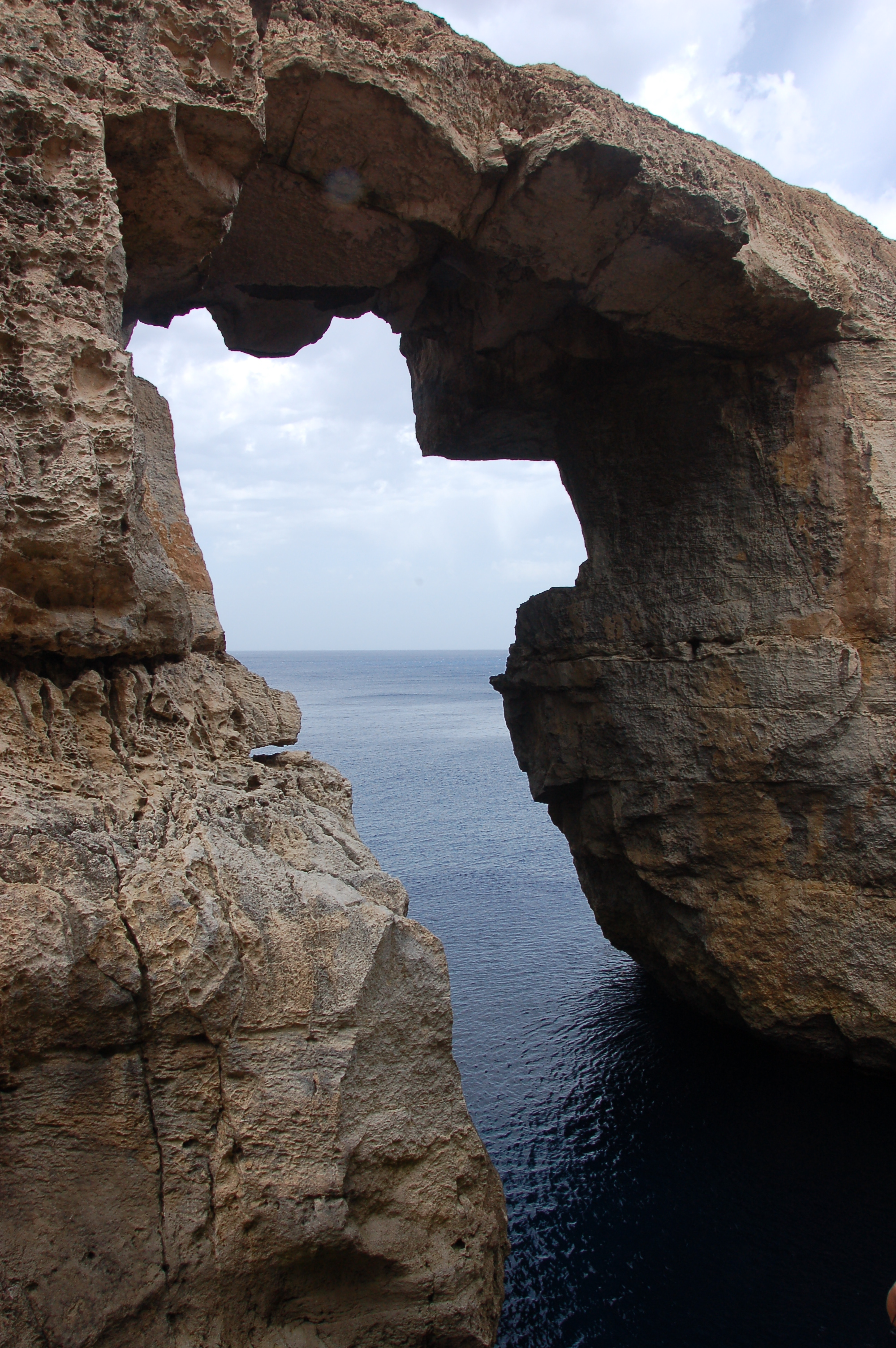 Wied il-Mielah Window